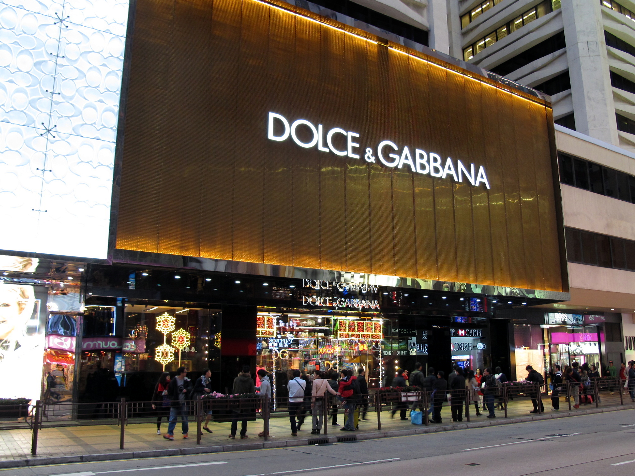 Dolce & Gabbana in Harbour City